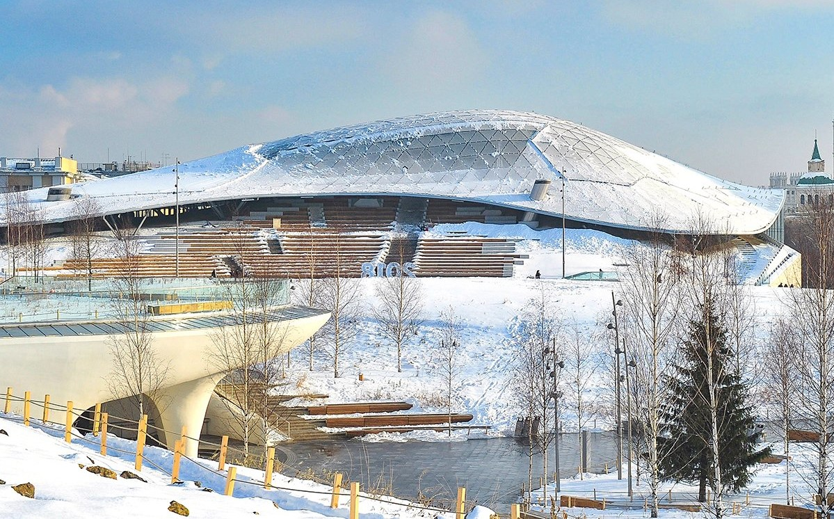 Zaryadye Concert Hall